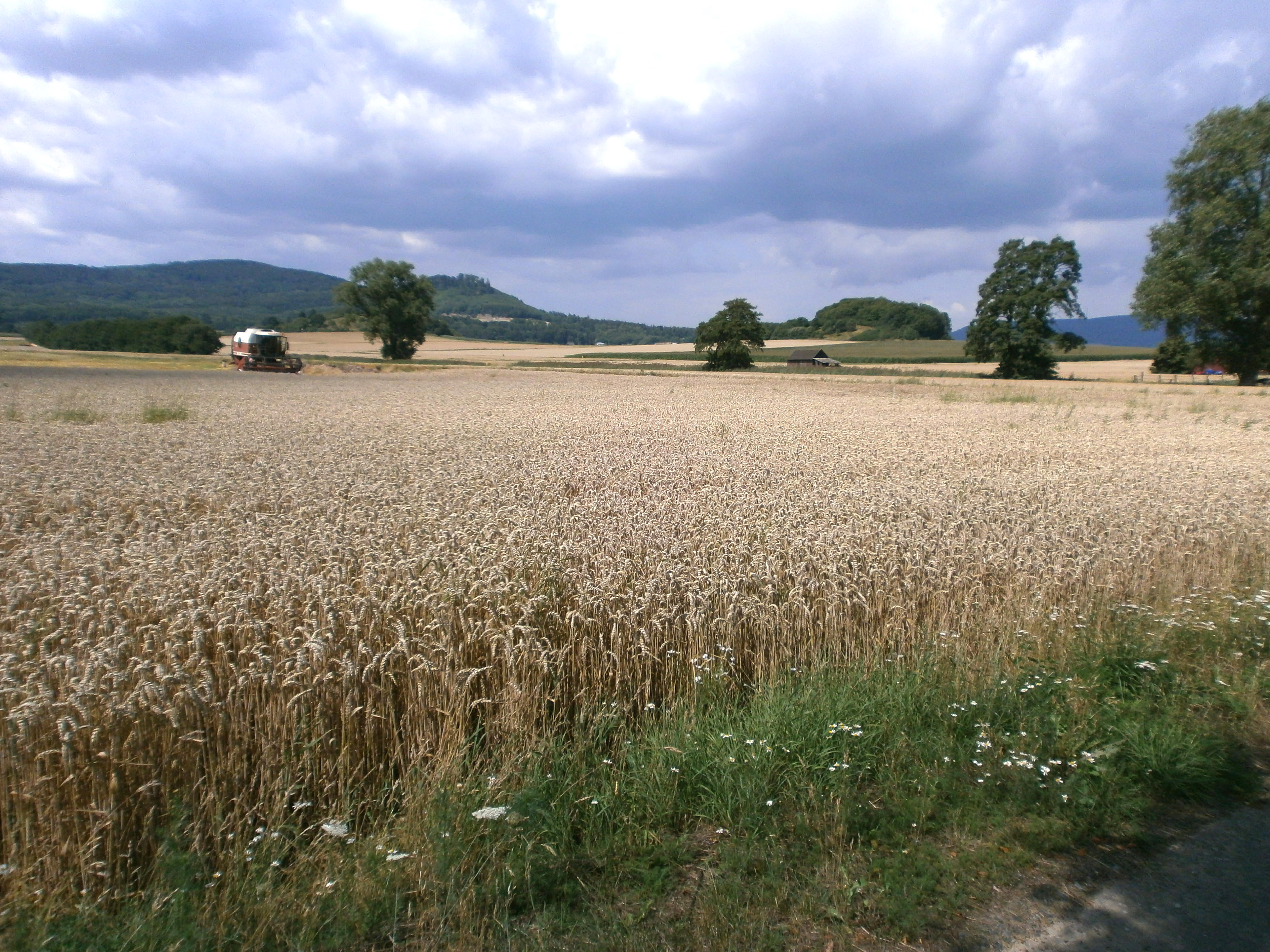 Wheat fields behind Besse